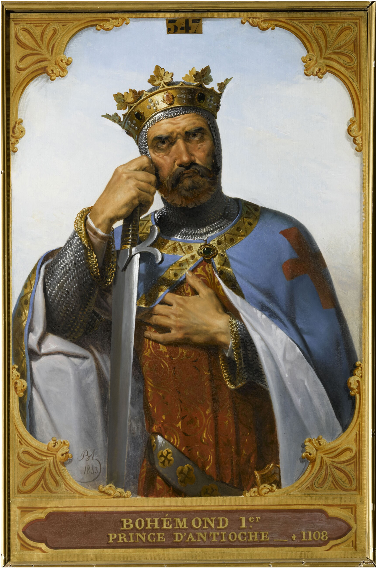 Imaginary portrait of Bohemond I by Merry-Joseph Blondel (1781–1853)